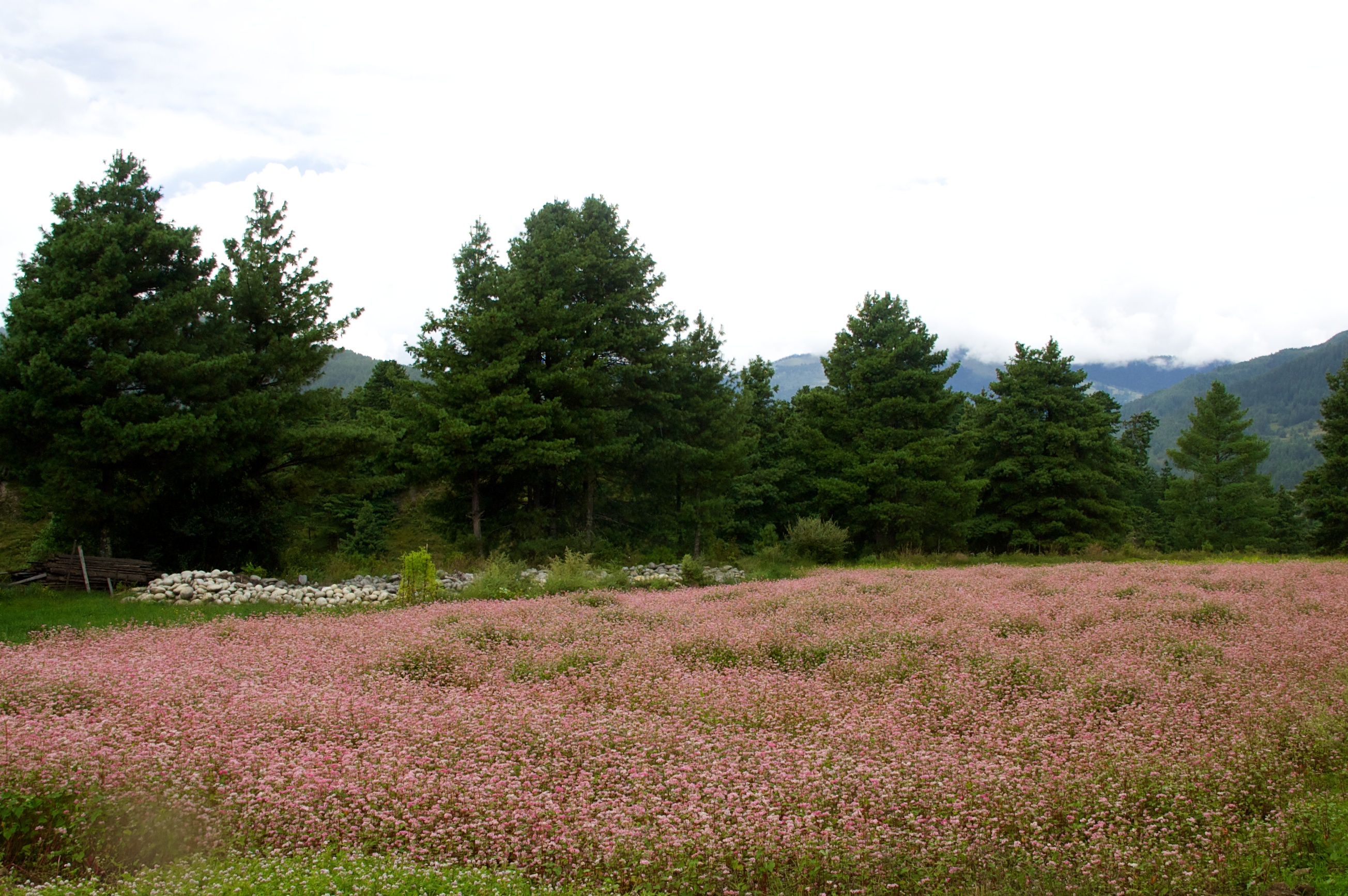 A field of buckwheat near Bumthang (Bhutan) in September 2010